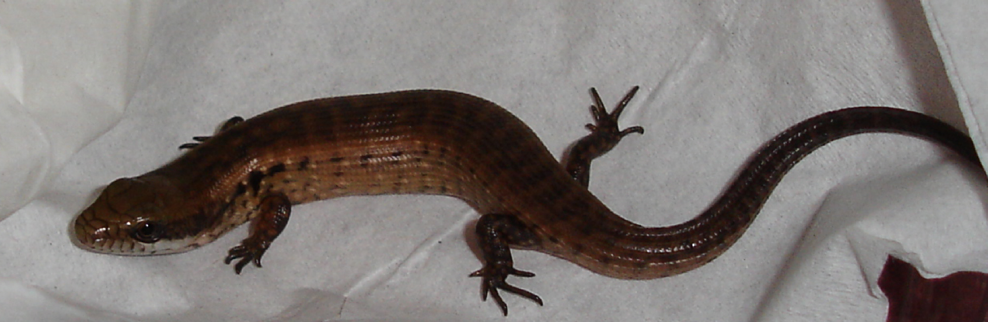 A young giant galliwasp (Celestes Warreni)